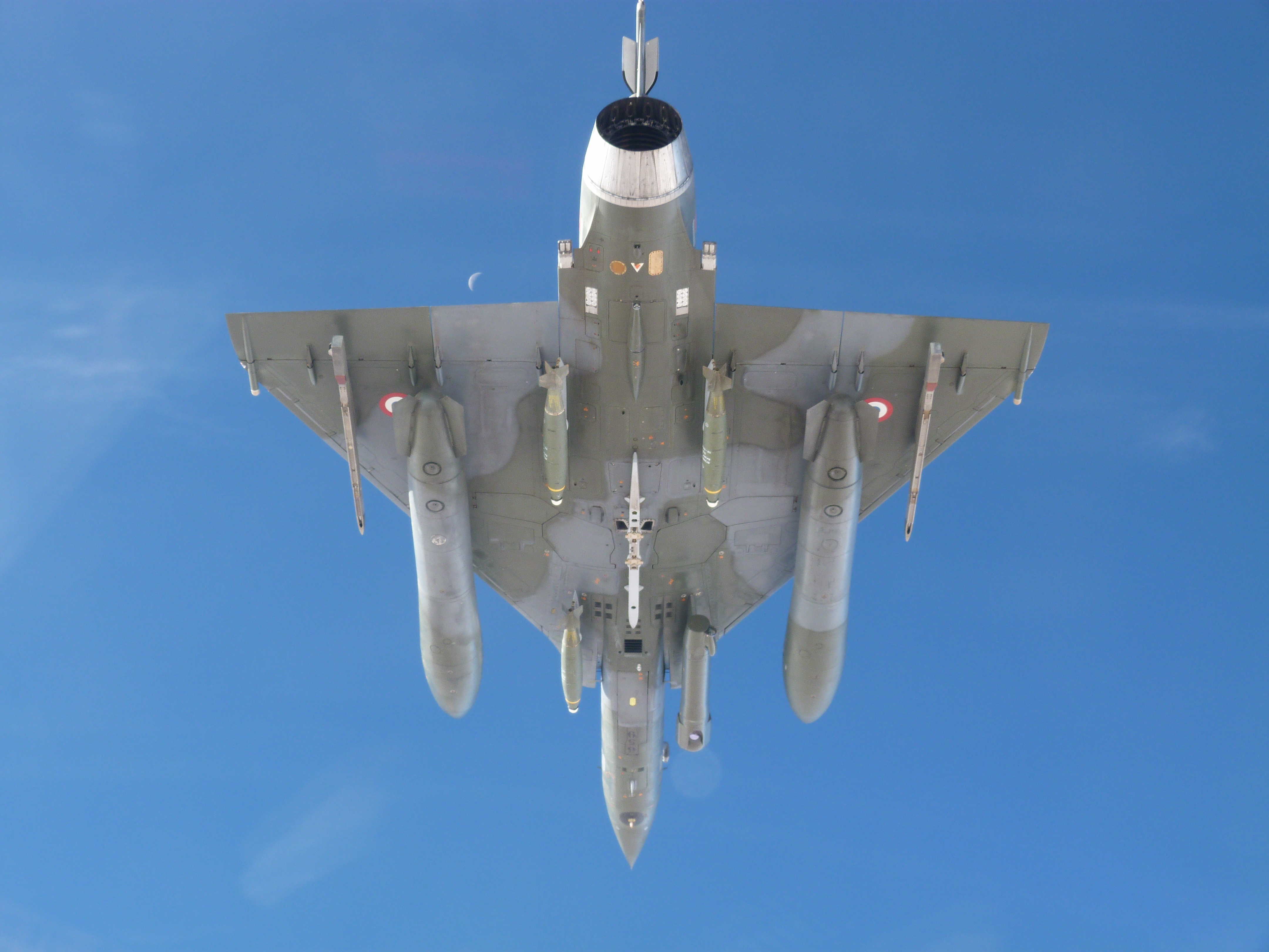 Load of 3 Mk 82 Airburst, Laser pod and fuel tanks.